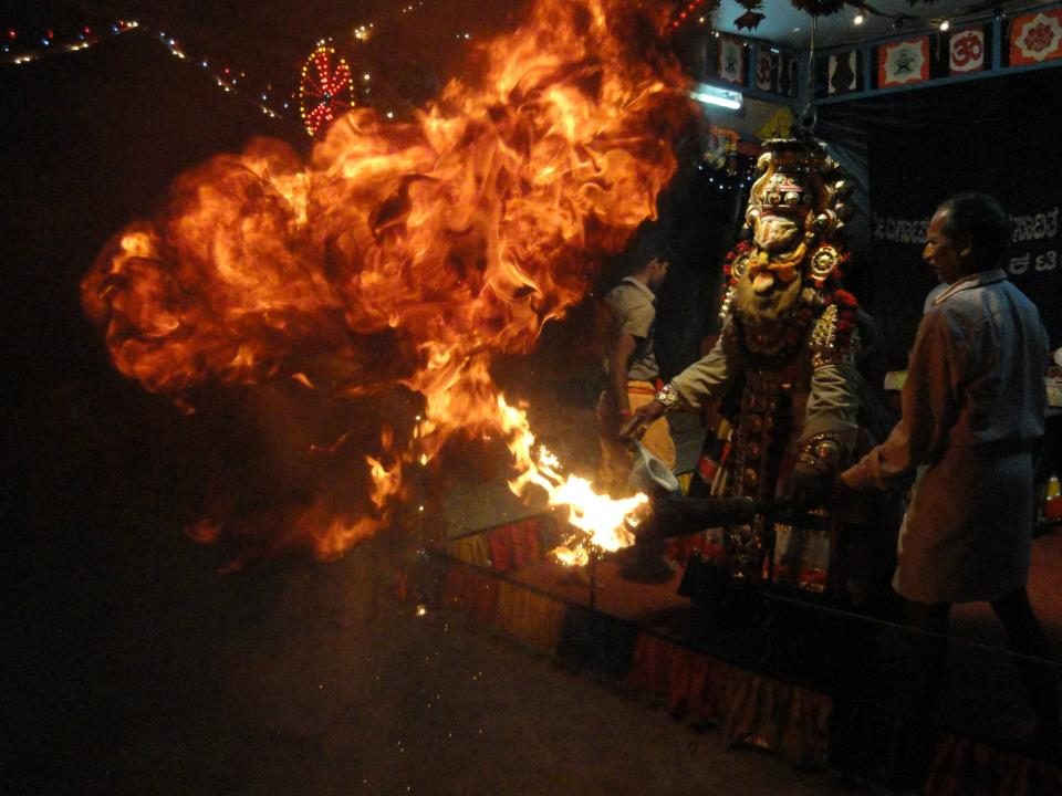 narsimha